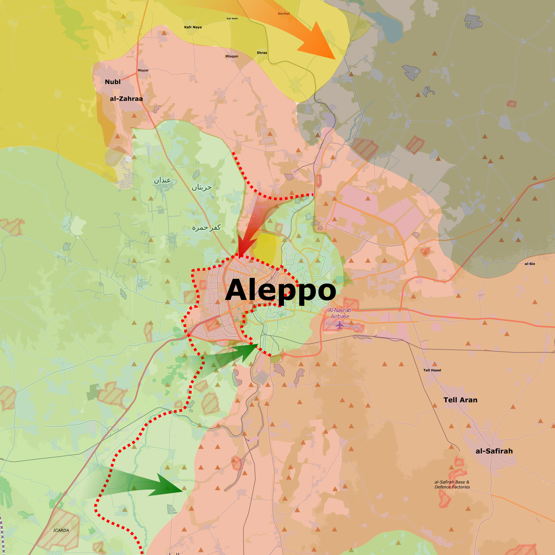 Map showing the government and rebel forces besieging each other in Aleppo during the height of the battle.